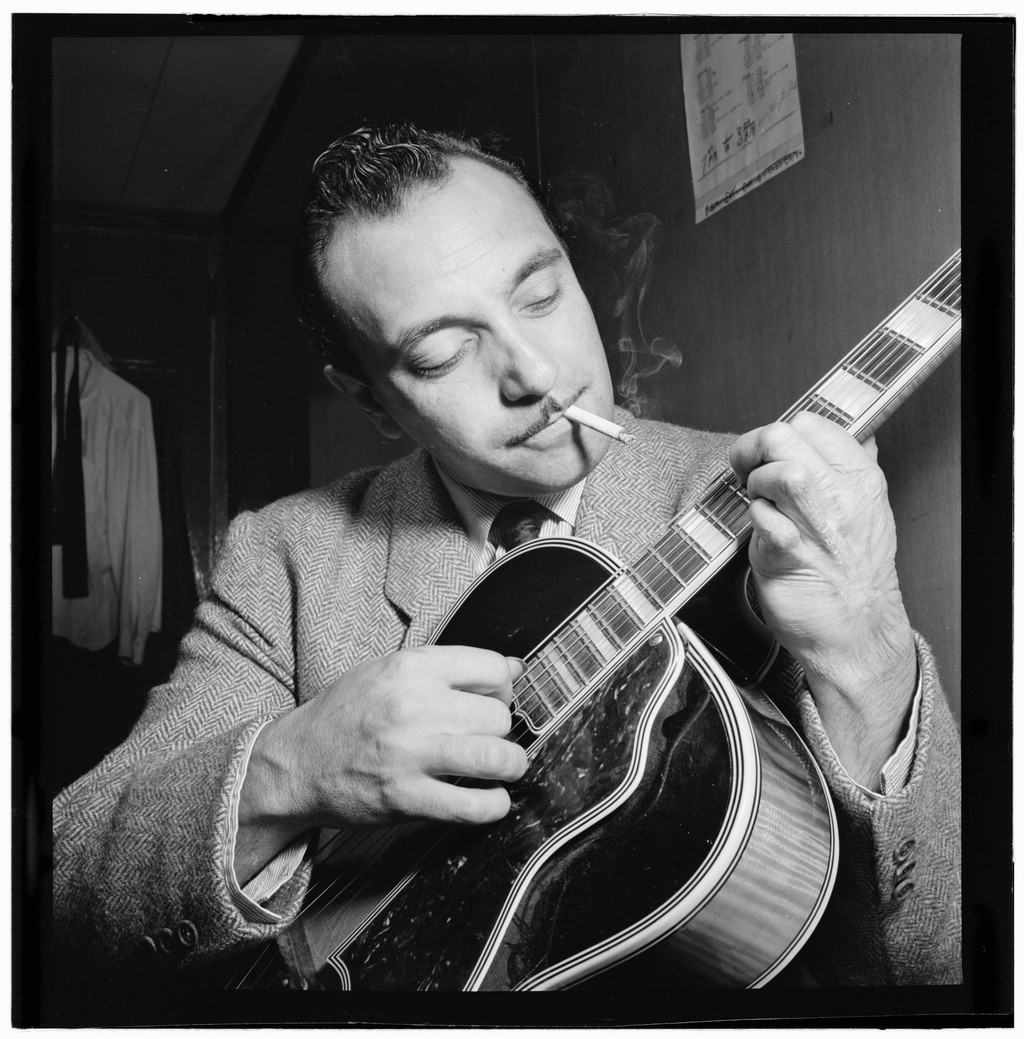 Gottlieb, William P., 1917-, photographer. [Portrait of Django Reinhardt, Aquarium, New York, N.Y., ca. Nov. 1946] 1 negative : b&w ; 2 1/4 x 2 1/4 in. Caption from Down Beat: The serious countenance of Django Reinhardt, cover subject by Bill Gottlieb for this issue, is in deference to the great French guitarist's current concert tour with Duke Ellington. Django, who has built a tremendous American reputation through his waxings with the Quintet of the Hot Club of France, was brought from Europe last month by the William Morris Agency, and one of his first concerts in this country was the Beat's Chicago Civic Opera House concert earlier this month. He will appear with Ellington Nov. 23-24 at Carnegie Hall. Notes: Gottlieb Collection Assignment No. 038 Reference print available in Music Division, Library of Congress. Purchase William P. Gottlieb Forms part of: William P. Gottlieb Collection (Library of Congress). In: "Django on the cover," Down Beat, v. 13, no. 24 (Nov. 18, 1946). Subjects: Reinhardt, Django, 1910-1953 Jazz musicians--1940-1950. Guitarists--1940-1950. Aquarium Format: Portrait photographs--1940-1950. Film negatives--1940-1950. Rights Info: Mr. Gottlieb has dedicated these works to the public domain, but rights of privacy and publicity may apply. Repository: (negative) Library of Congress, Prints & Photographs Division, Washington D.C. 20540 USA, (reference print) Library of Congress, Music Division, Washington D.C. 20540 USA, Part Of: William P. Gottlieb Collection (DLC) 99-401005 General information about the Gottlieb Collection is available at Persistent URL: Call Number: LC-GLB23- 0730 This work is from the William P. Gottlieb collection at the Library of Congress. Rights and restrictions. In accordance with the wishes of William Gottlieb, the photographs in this collection entered into the public domain on February 16, 2010.